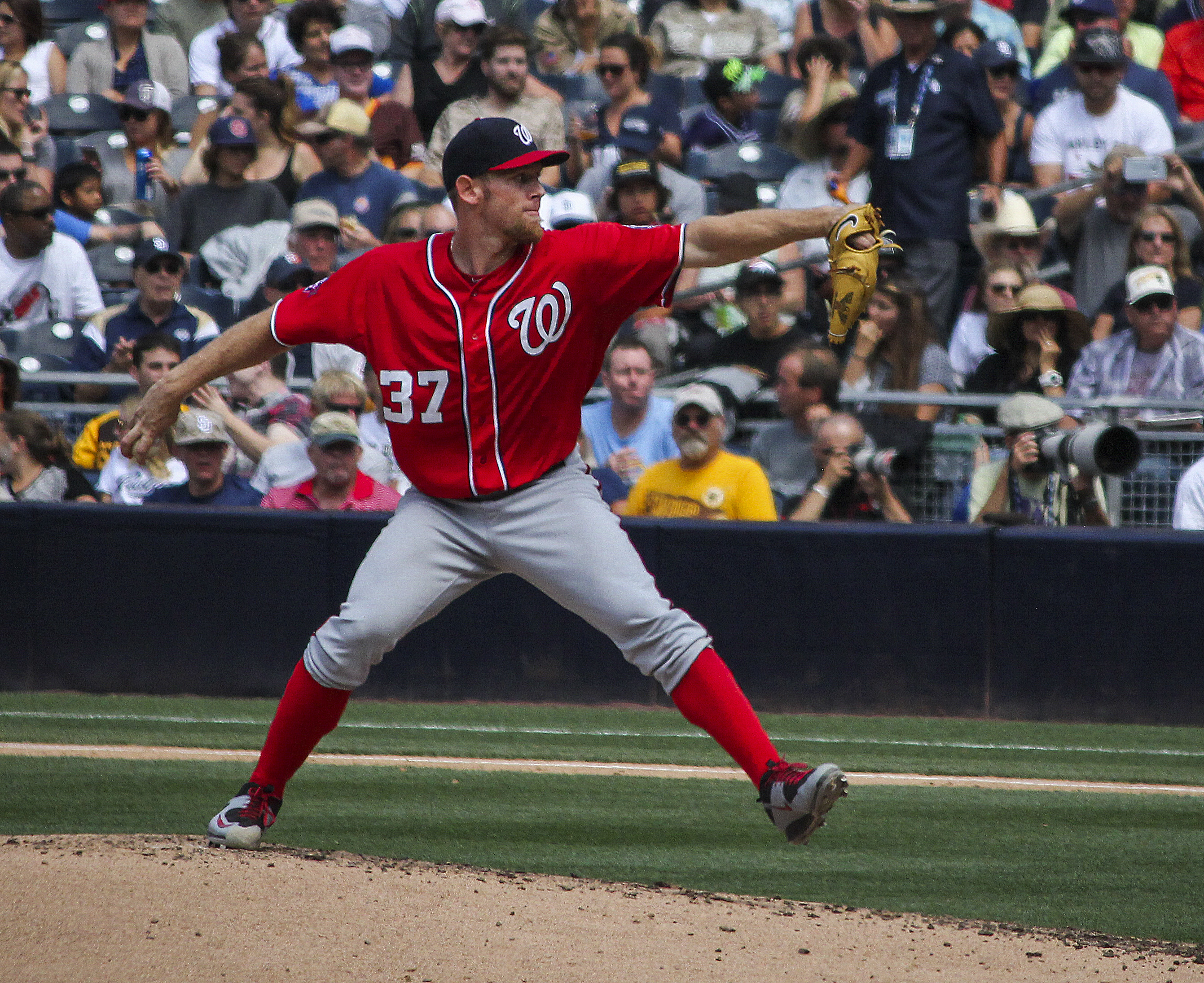 Stephen Strasburg of the Nationals